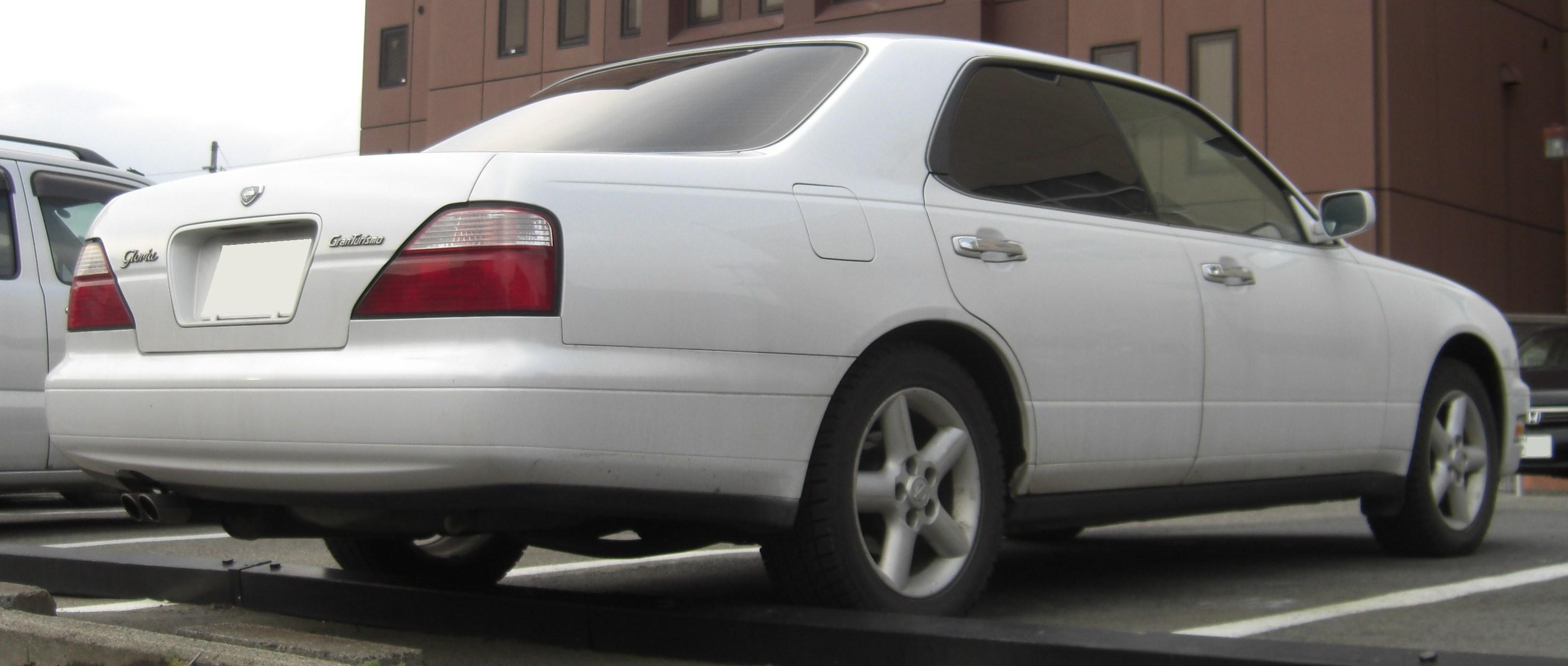 NISSAN Gloria